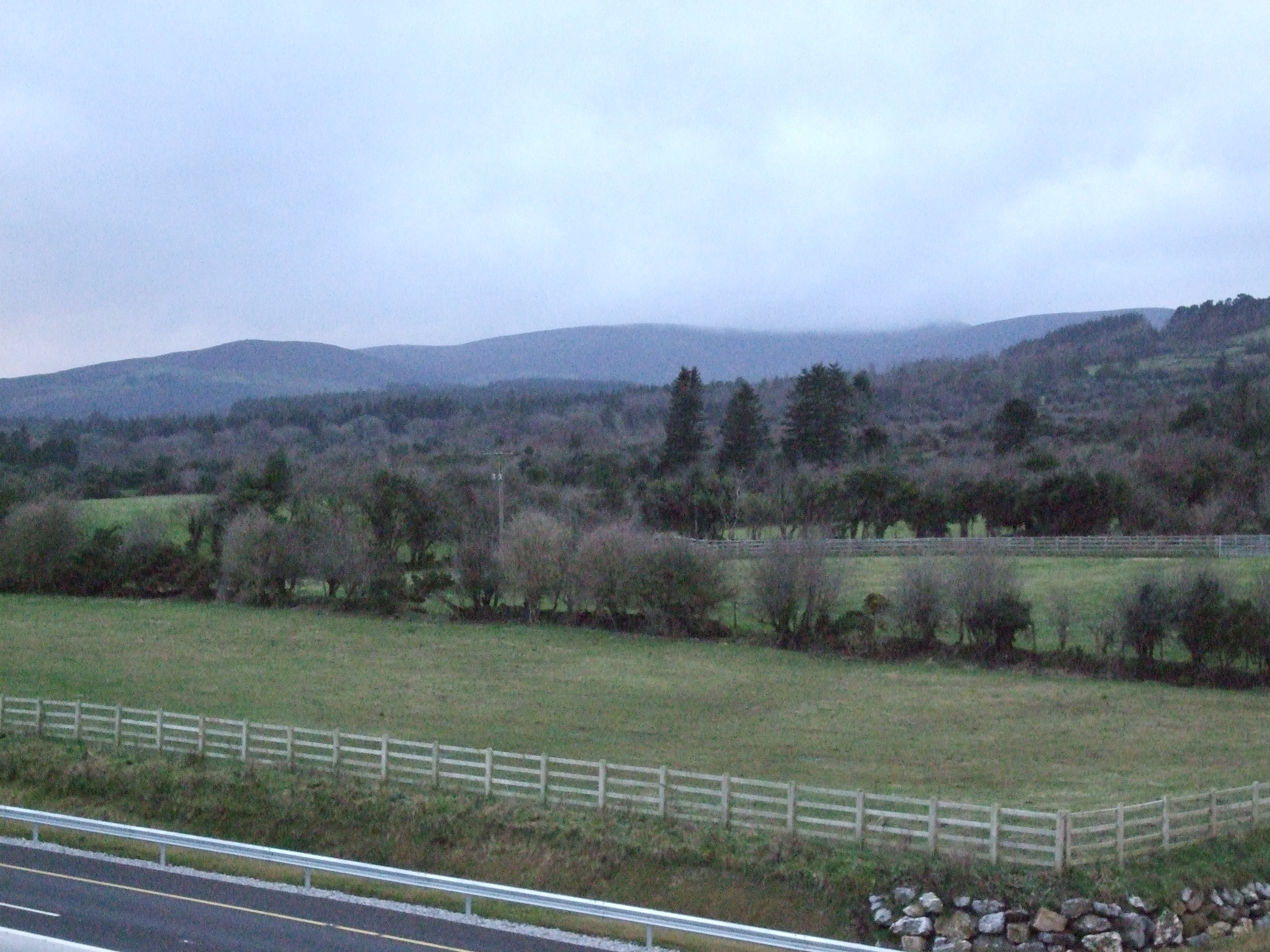 Glengarra Wood is a mixed woodland in Ireland located 15 kilometres (9.3 mi) southwest of Cahir, Co. Tipperary off the M8 motorway and R639 road.